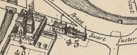 Detail of 1695 map by J. Laboureur & Josse van der Baren, Bruxella, nobilissima Brabantiæ civitas